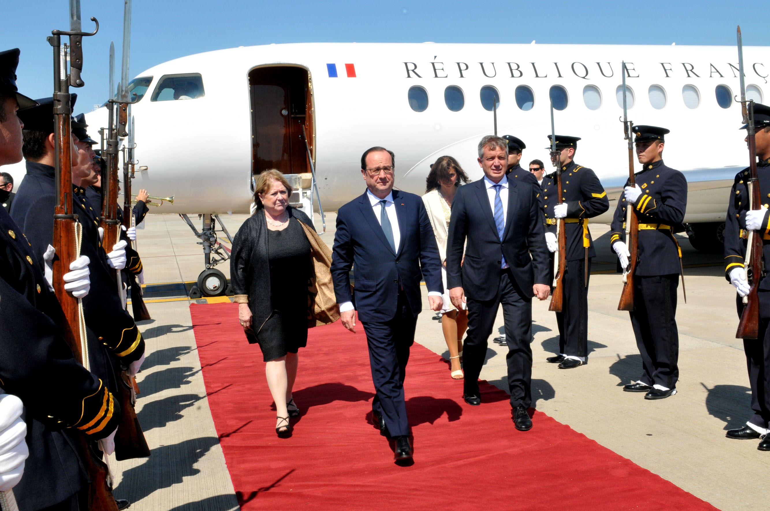 La Canciller Susana Malcorra recibió en Ezeiza al Presidente de Francia, François Hollande. Luego en la Plaza San Martín, el Mandatario depositó una ofrenda floral en el monumento al Libertador, acompañado por la Canciller y el Jefe de Gobierno Horacio Rodriguez Larreta. Foto: Roberto Daniel Garagiola